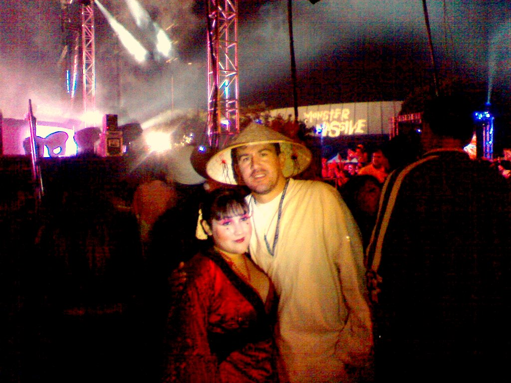 Armin Van Buuren Trance Dj at Monster Massive 2009. Us in VIP cabana area. Dj Download & my Michelle Obama.